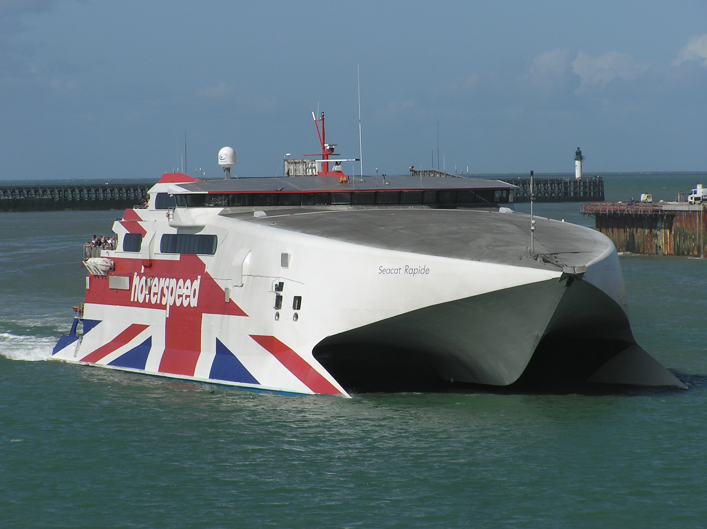 Hoverspeed fast ferry Seacat Rapide entering Calais